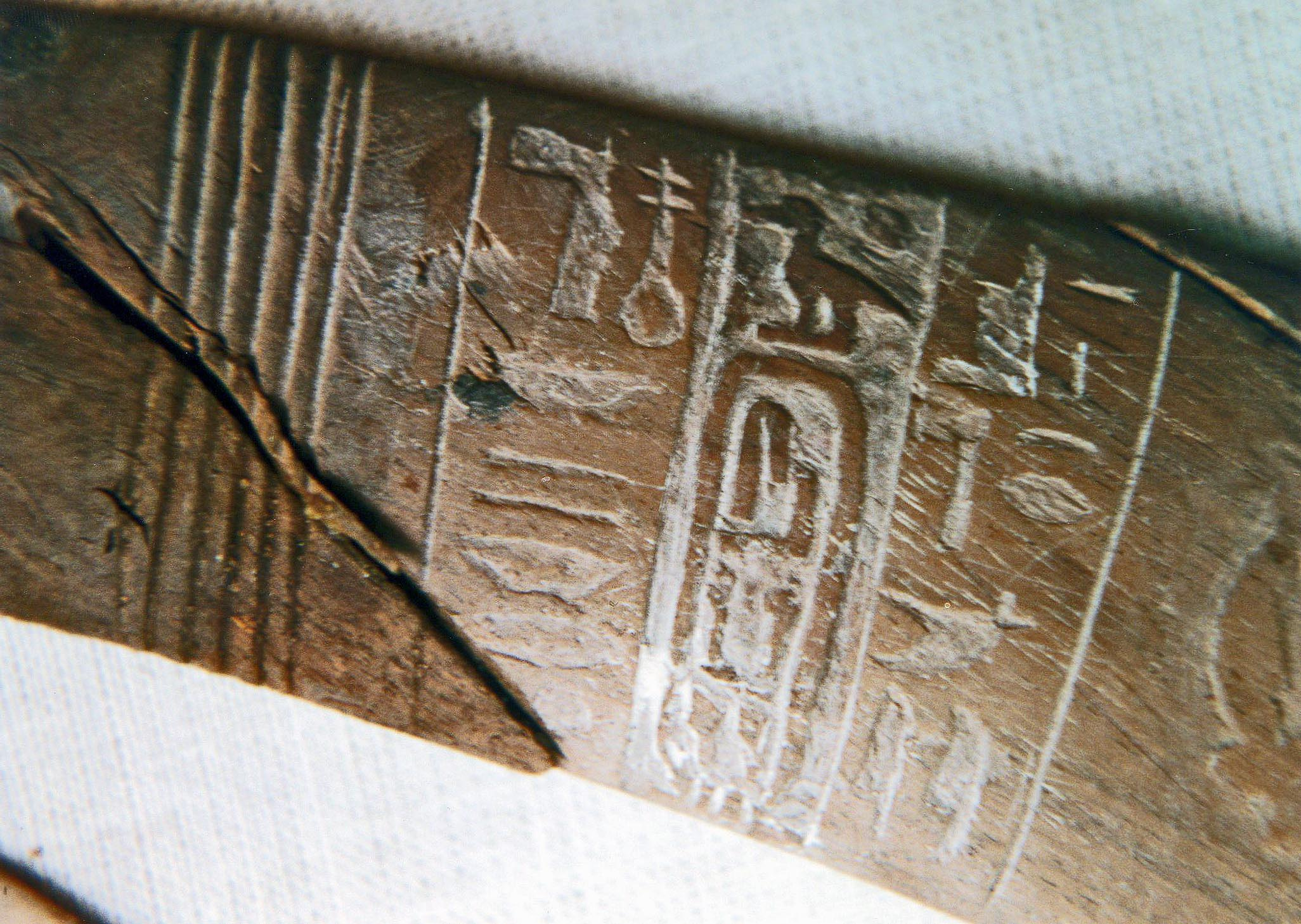 Magic wand with the name of pharaoh Sebkay of the early 13th dynasty. Inside is mentioned his paternal parentage by King Seb, Egyptian Museum Cairo, JE 34988 (CG 9433)